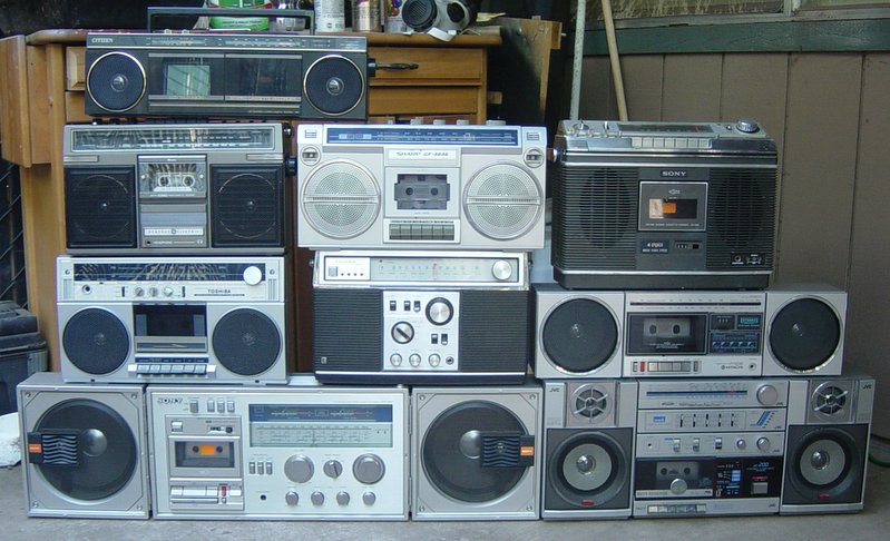 Assortment of various Ghettoblasters. Top row: Citizen TA 80 Second row: GE 5252; Sharp GF 4646; Sony GF-580 Third: Toshiba RT-6015; Lloyds V156; Hitachi TRK-9000H Bottom: Sony CFS-88S; JVC PC200